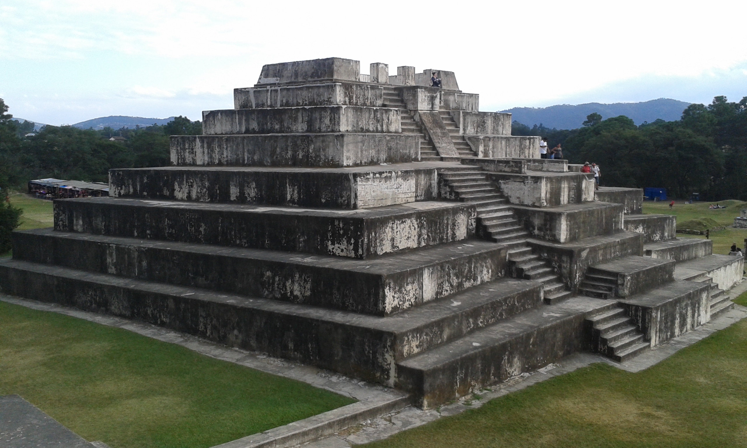 Zaculeu, Mam Maya ruins in Huehuetenango, Guatemala.